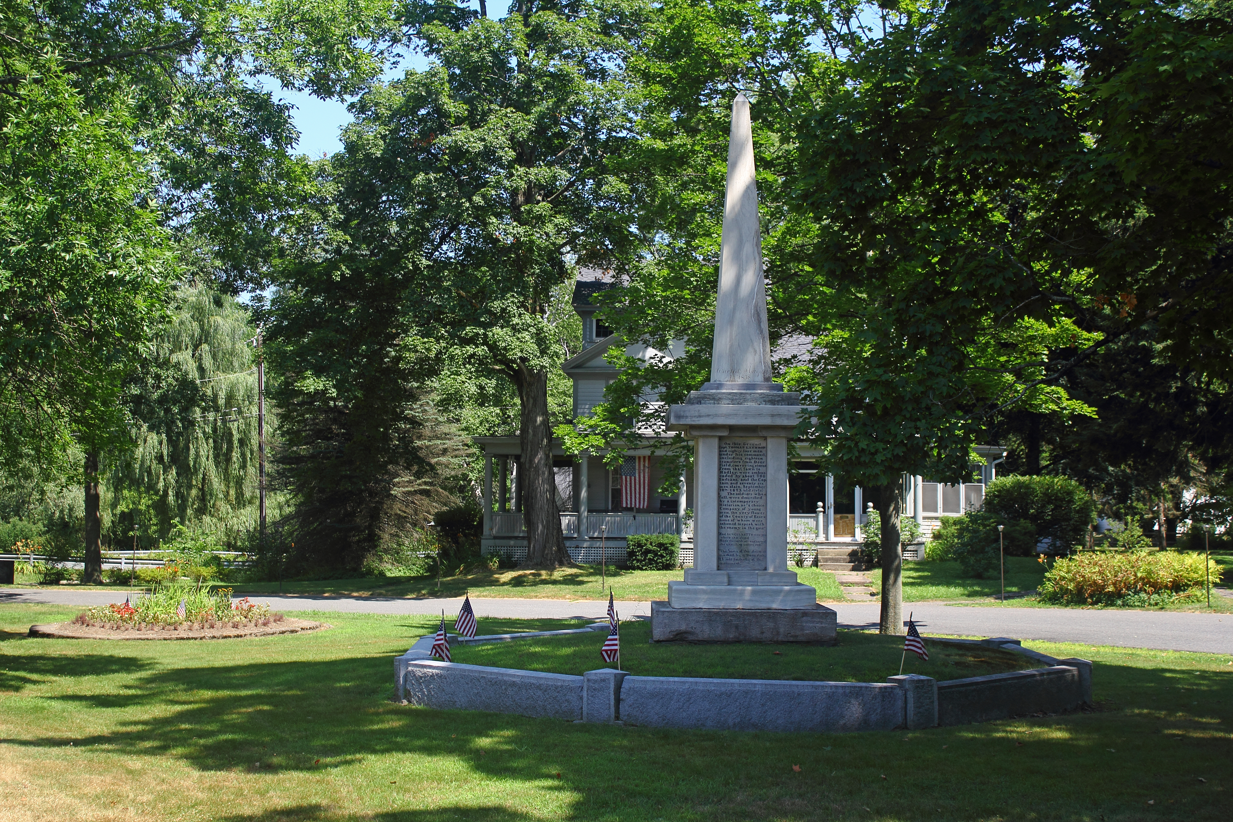 Bloody Brook Monument. N Main St South Deerfield, MA Erected August 1838